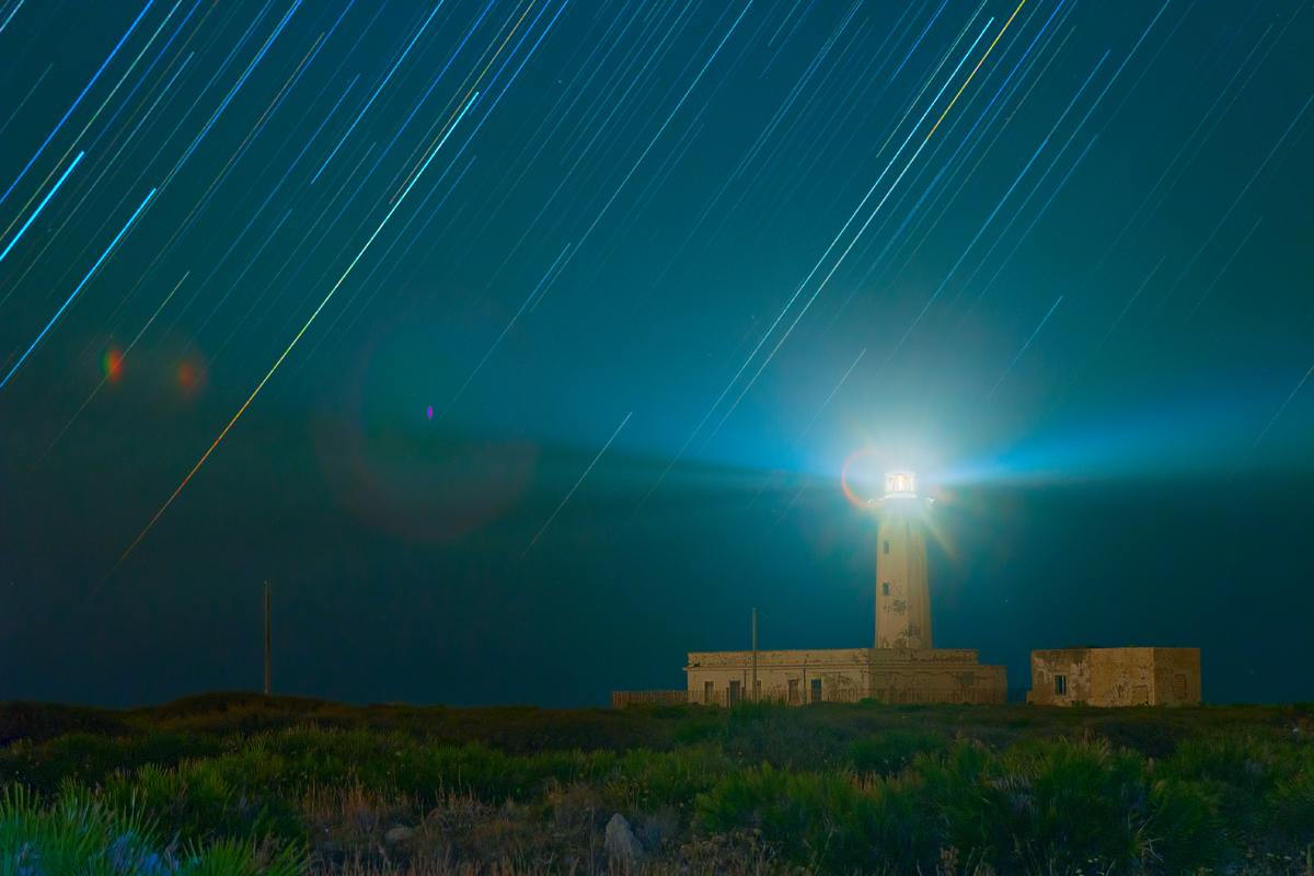 Even with the light of the Capo Murro di Porco's lighthouse (Plemmirio) it is possible to see the stars shine..in this case drawing a 1 hour long star trail.